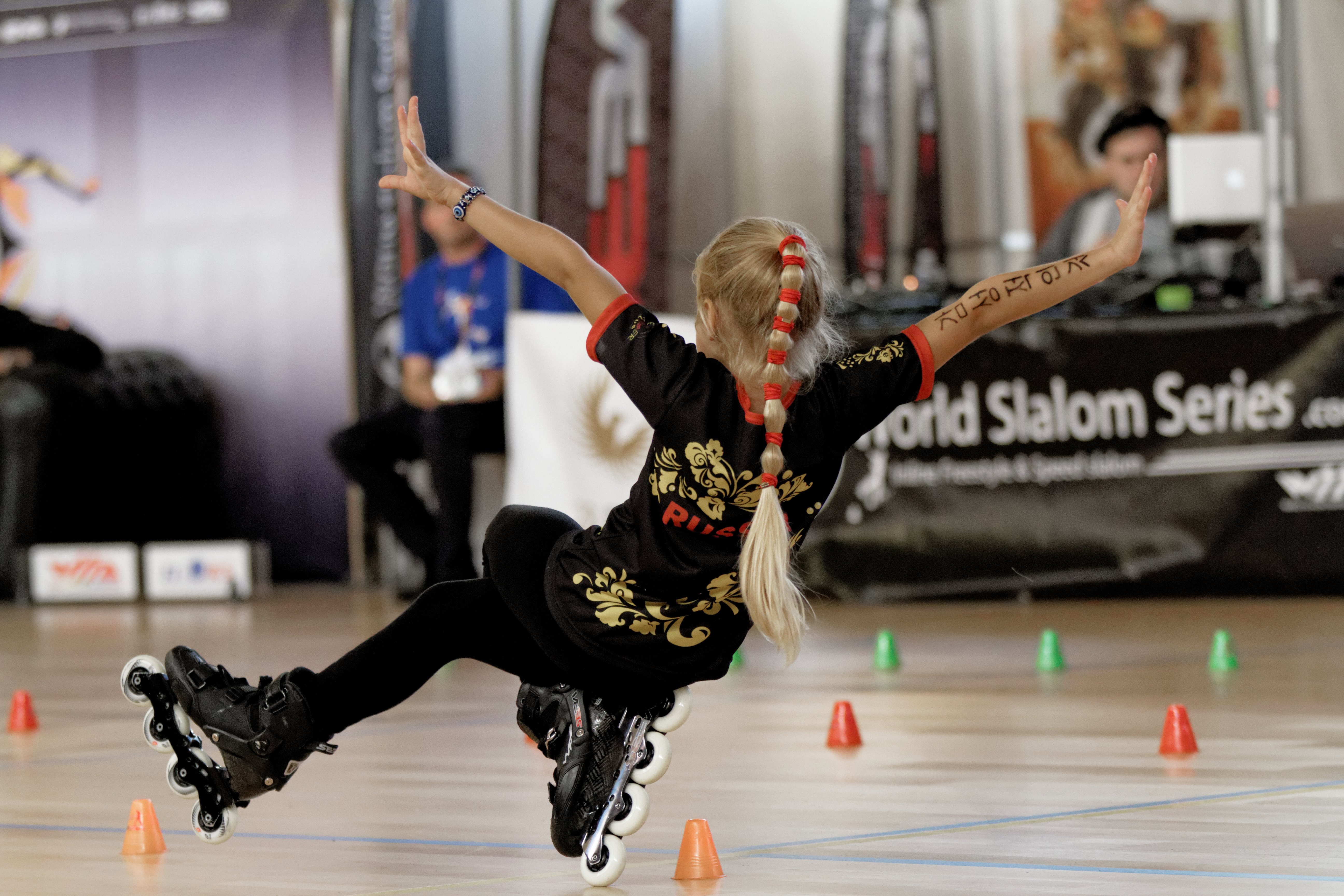 2014 World freestyle skating championships